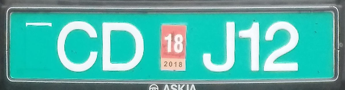 Diplomatic license plate of Iceland.